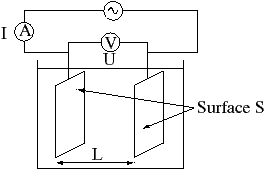 Installation of the experiment to measure the conductance of an electrolyte solution.